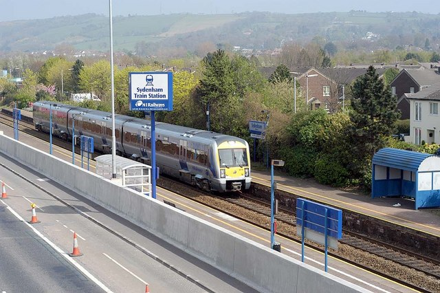 Sydenham railway station Original description: Sydenham Station 3019 the 14:00 Bangor to Portadown service arriving at Sydenham Station